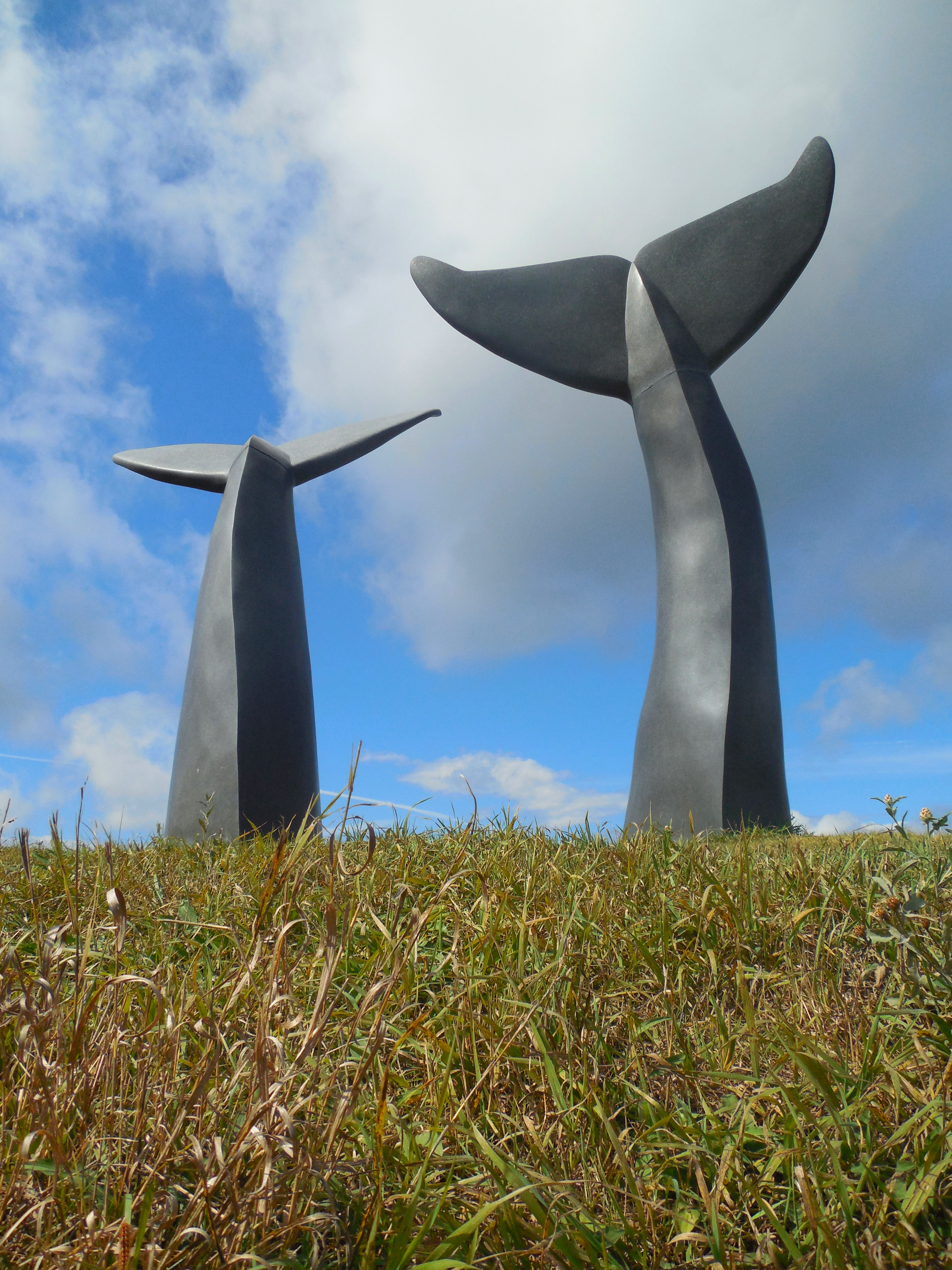 ReverenceWhaleTailsSBVT_20140916 : "Reverence" sculpted by Jim Sardonis, 1989